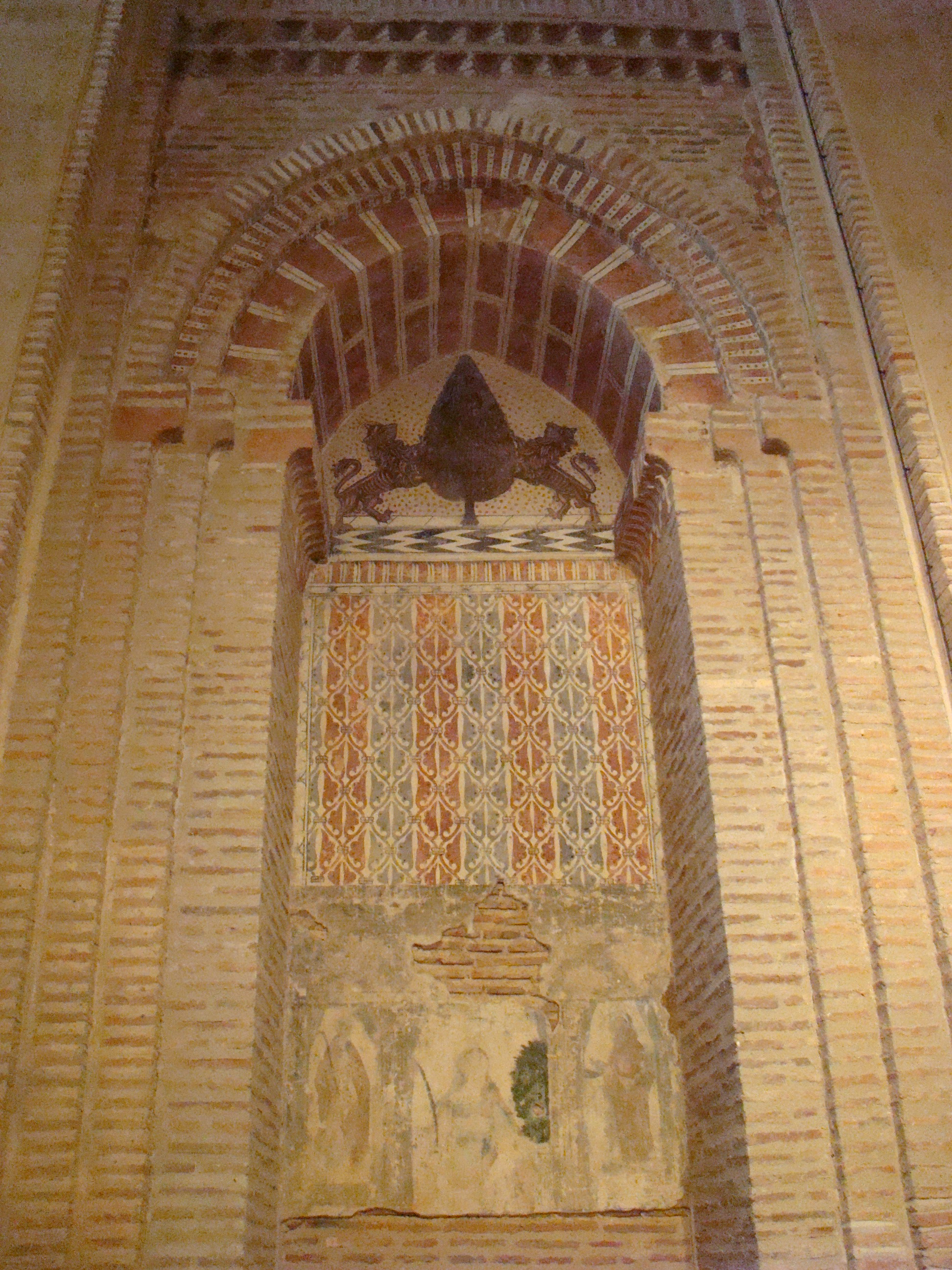 Romanesque-mudejar church of San Salvador de Toro, Zamora (Spain). Central nave, fresco in the muslim mudejar style.